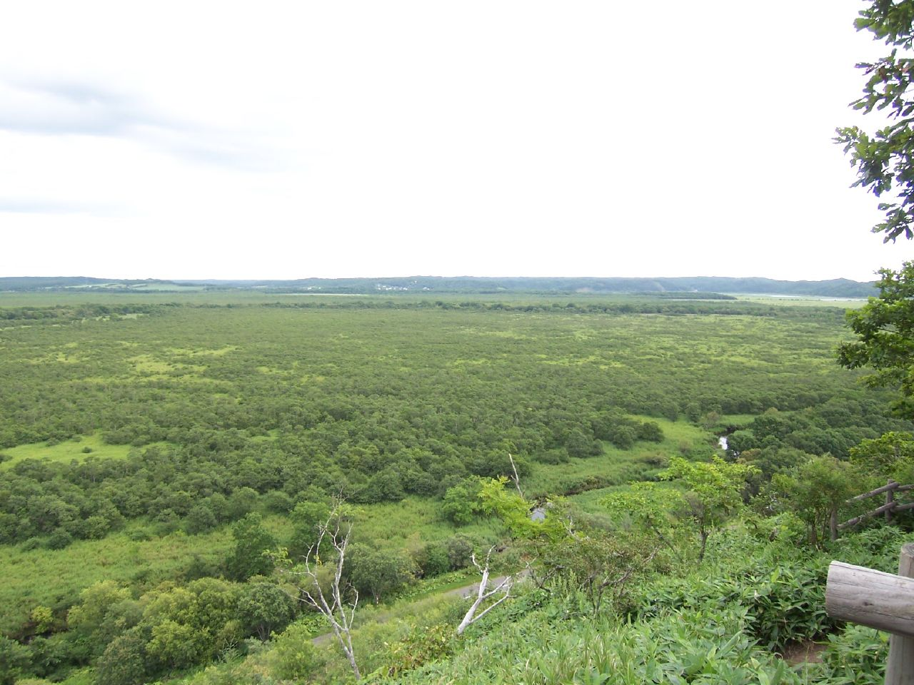 Kottaro Observatory, Kushiro Marsh, Hokkaido.